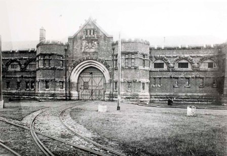 Long bay Gaol - entrance to metropolitan training centre.